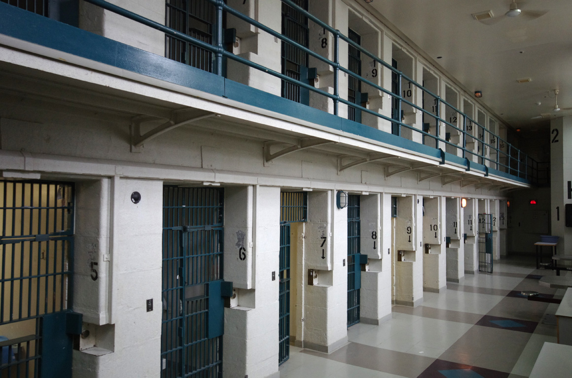 Maximum security cell block in Kingston Penitentiary